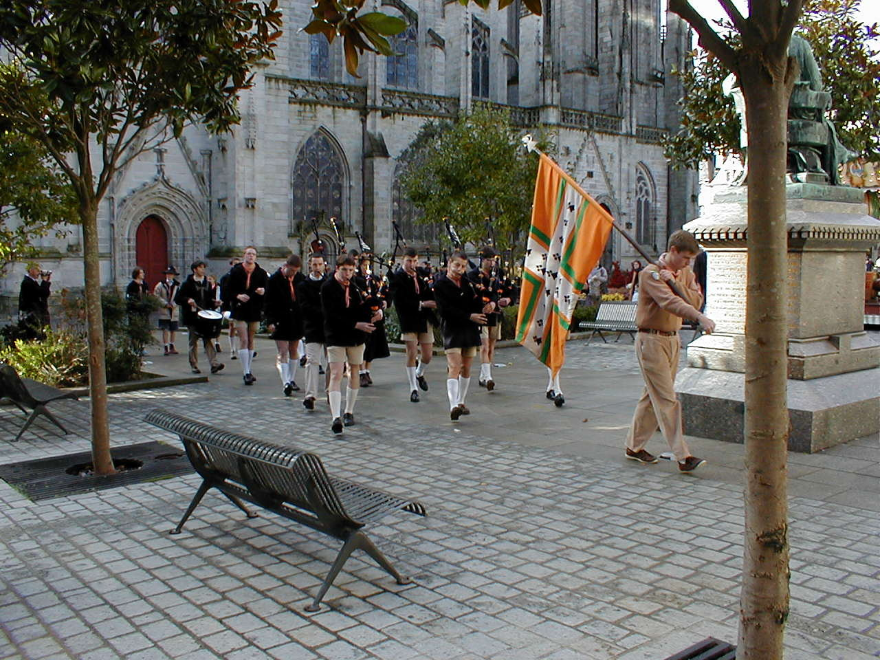 Bagad Saint Patrick